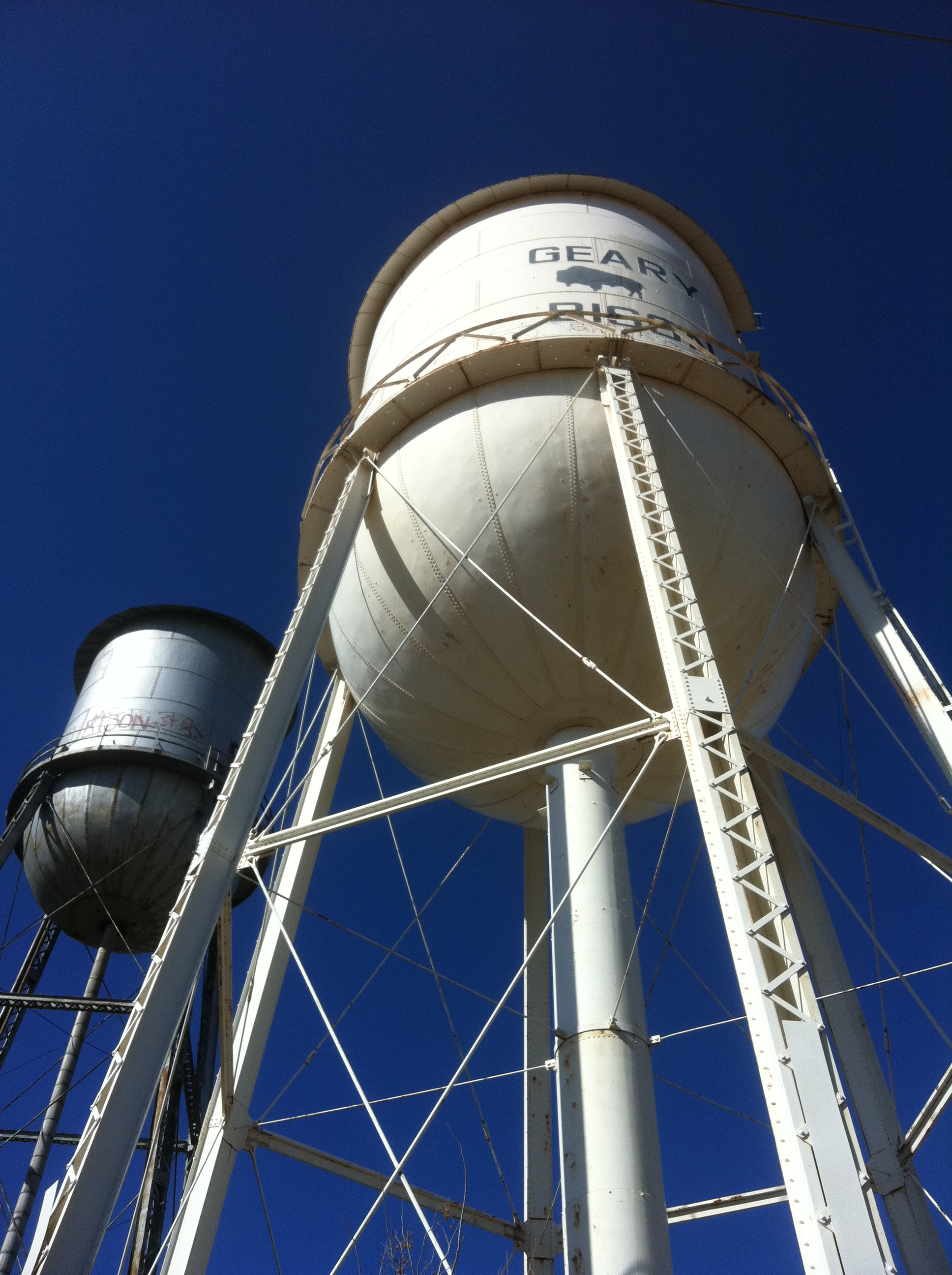 City of Geary water towers.